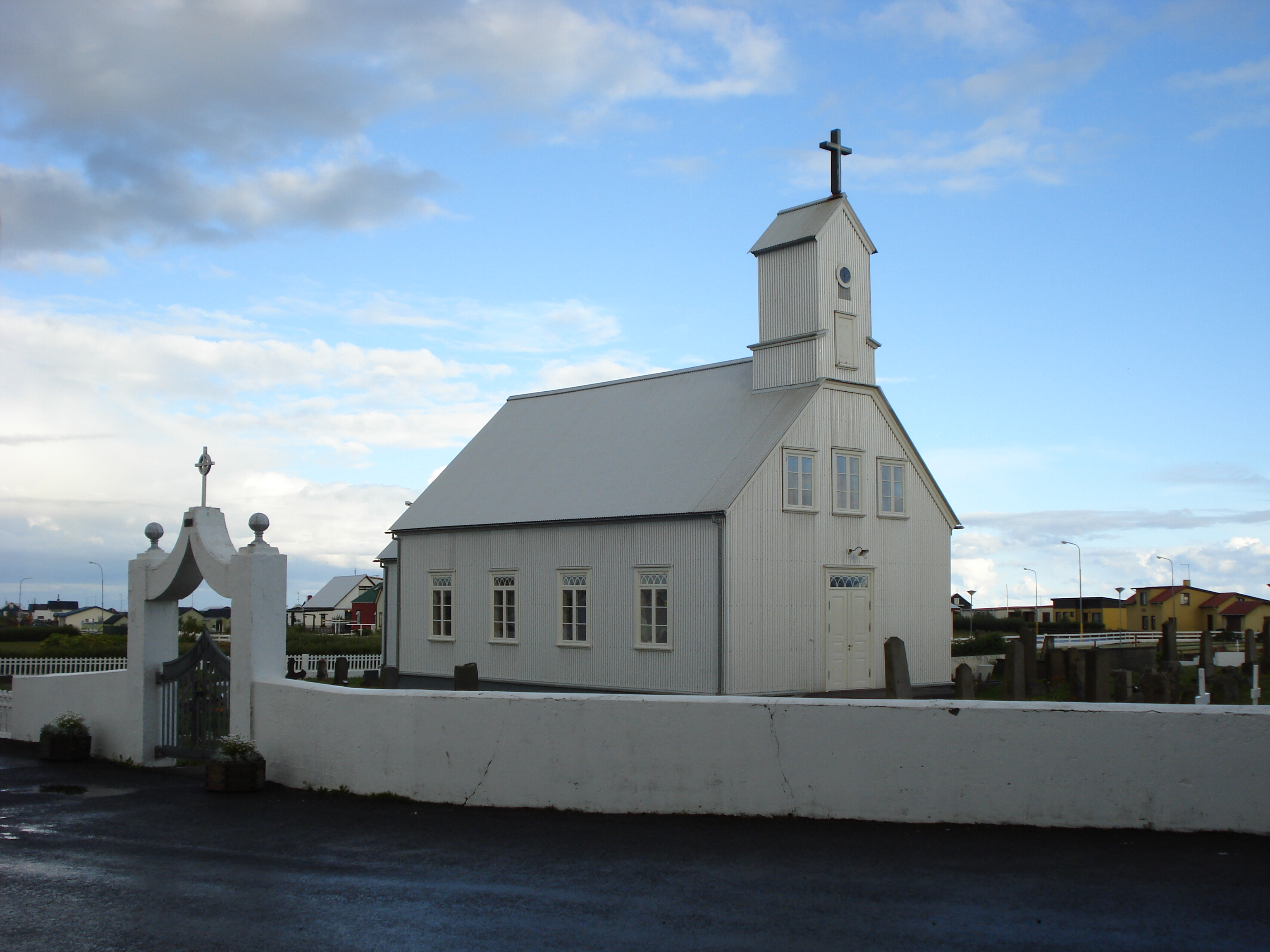 Church / Kirkja in Stokkseyri